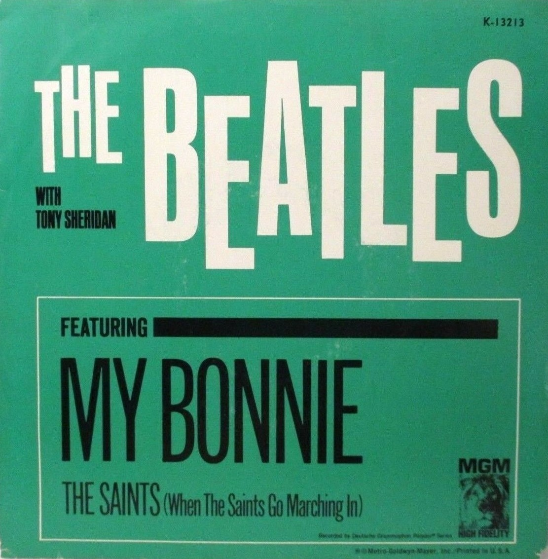 The Beatles with Tony Sheridan - My Bonnie. 1964 US edition (Originally recorded in 1961 in Germany as Tony Sheridan and the Beat Brothers)